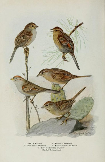 A plate from "Impression of the Voices of Tropical Birds", Bird-Lore, Vol XVI, No 3, 1914, pp. 161-169. Shown are Peucaea cassinii, Peucaea botterii (Aimophila botterii), Peucaea aestivalis (Aimophila aestivalis), Peucaea carpalis (Aimophila carpalis), and Aimophila ruficeps